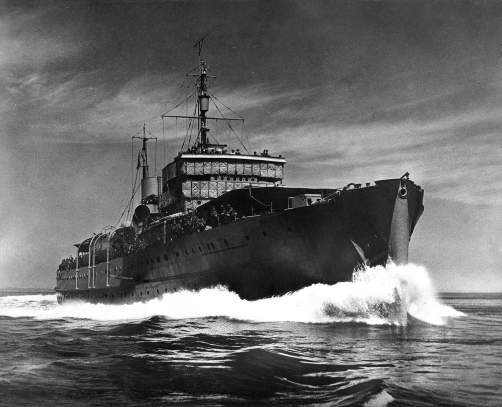 This digital image was scanned from a 8" x 10" photograph that was used as a promotional photo for the movie "Commandos Strike at Dawn". These photos were given to the crew of the HMCS Prince David after the filming of portions of the movie aboard the ship in 1942.